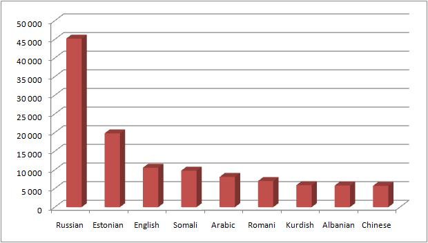 Number of speakers of the largest unofficial languages in Finland, 2007 according to: "Väestö – Suomessa puhutut kielet (31.12.2007)" (in Finnish). suomi.fi. Helsinki:: State Treasury. 2007-12-31.